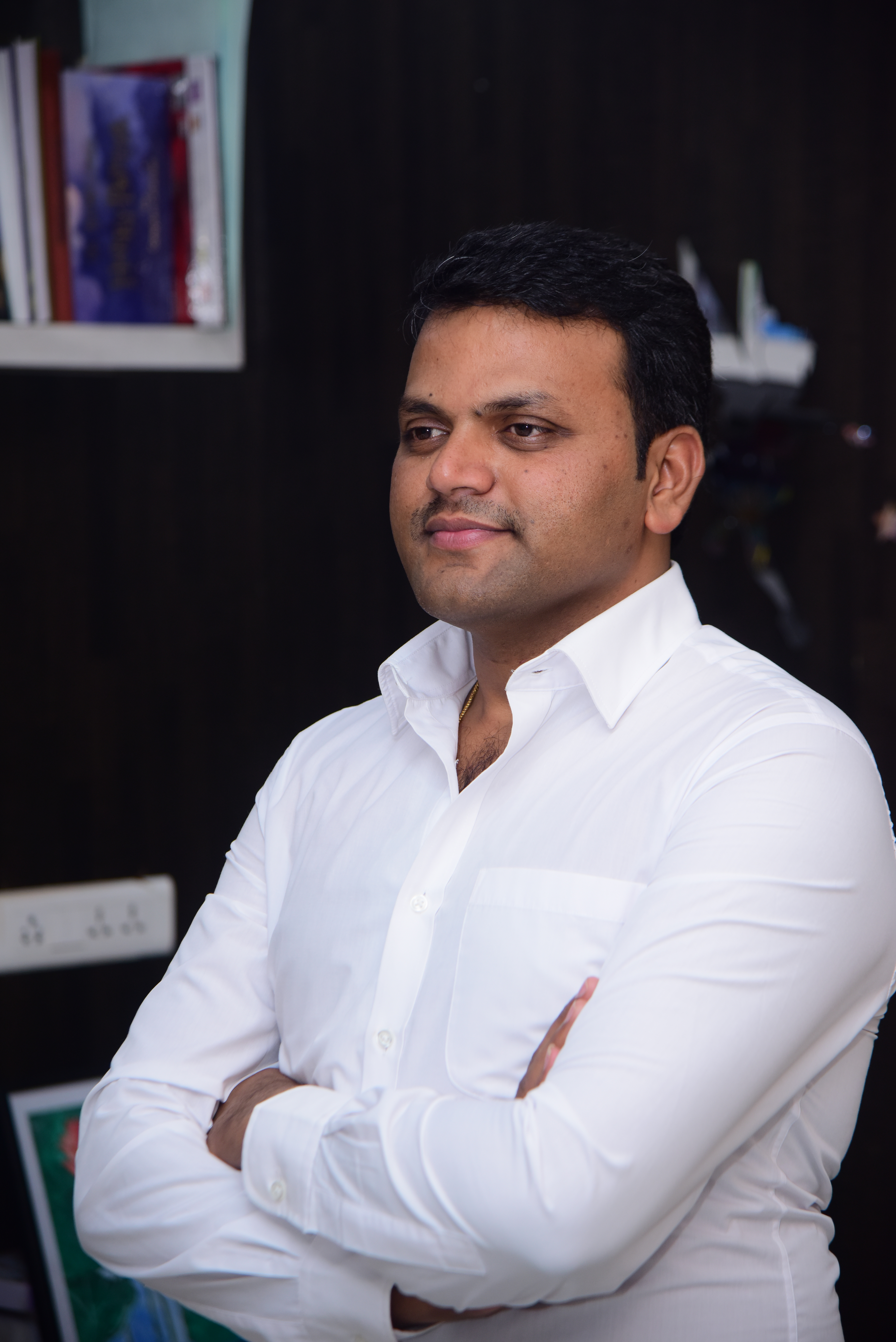 A picture took during his speech in hyderabad.